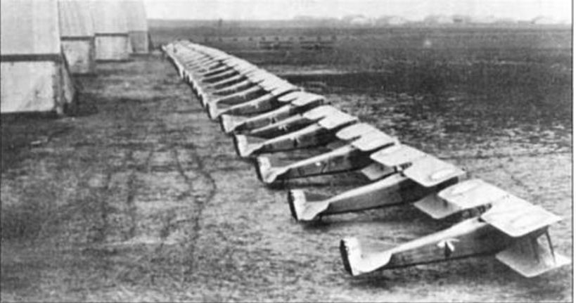 103d Aero Squadron SPAD VII aircraft parked on the flightline, Bonne Maison Aerodrome, France during the Battle of the Lys in April 1918.